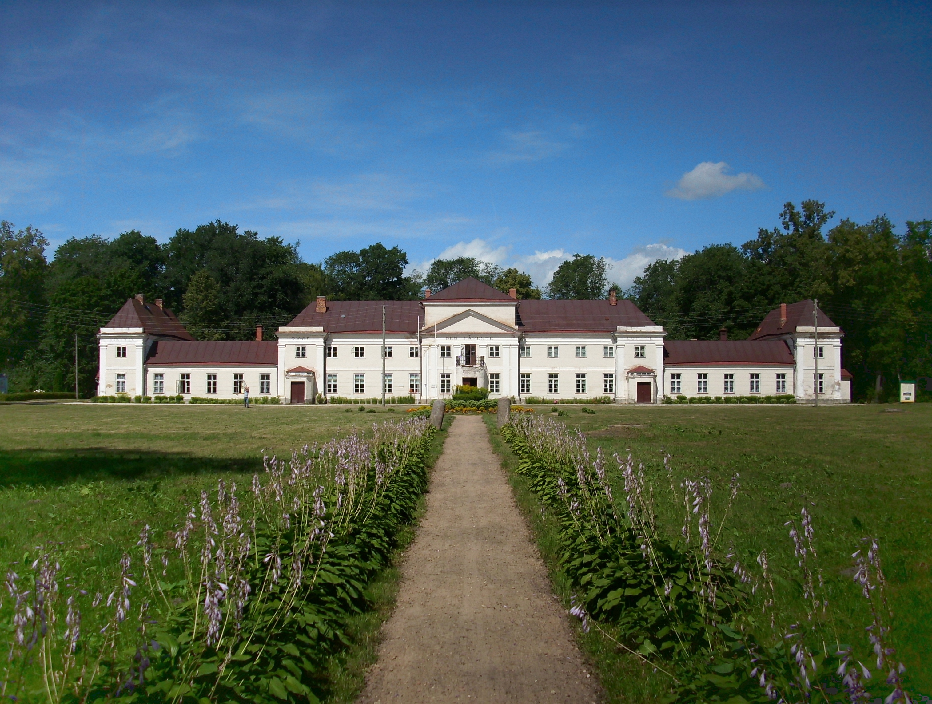 Varakļāni Castle in Latvia.